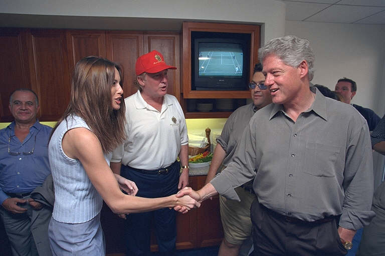 Bill Clinton and Donald Trump at the U.S. Open in 2000, Flushing, New York